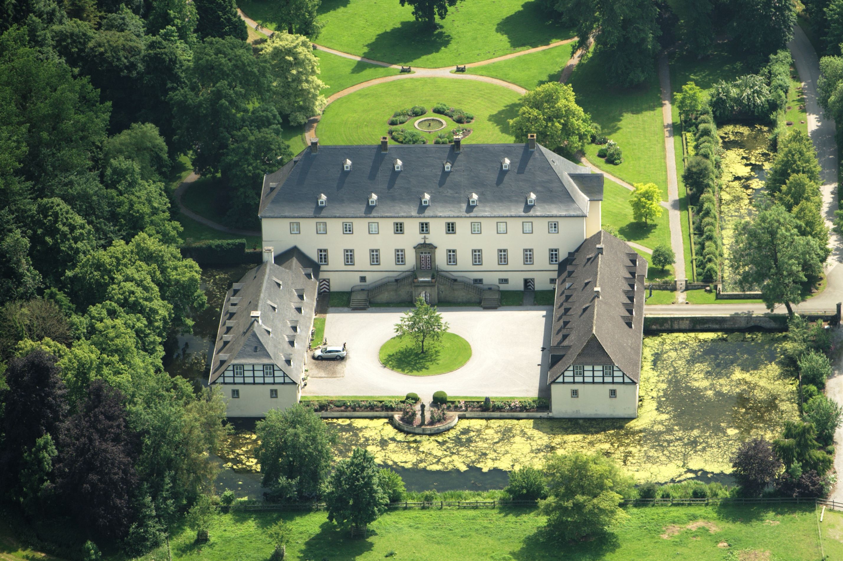 Fotoflug Sauerland-Ost Schloss Alme aus nördlicher Richtung in Brilon-Alme The making of this document was supported by the Community-Budget of Wikimedia Germany.